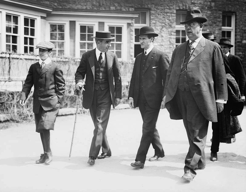 Photograph shows delegates to the Niagara Peace Conference of 1914 including Argentine ambassador Rómulo Sebastián Naón Peralta Martínez (1876-1941) and Robert F. Rose, foreign trade adviser with the US State Department. (Source: Flickr Commons project, 2011 and New York Times, May 17 and 28, 1914) From left to right: Master Naón (son of R. S. Naón) Rómulo Sebastián Naón unknown Robert F. Rose